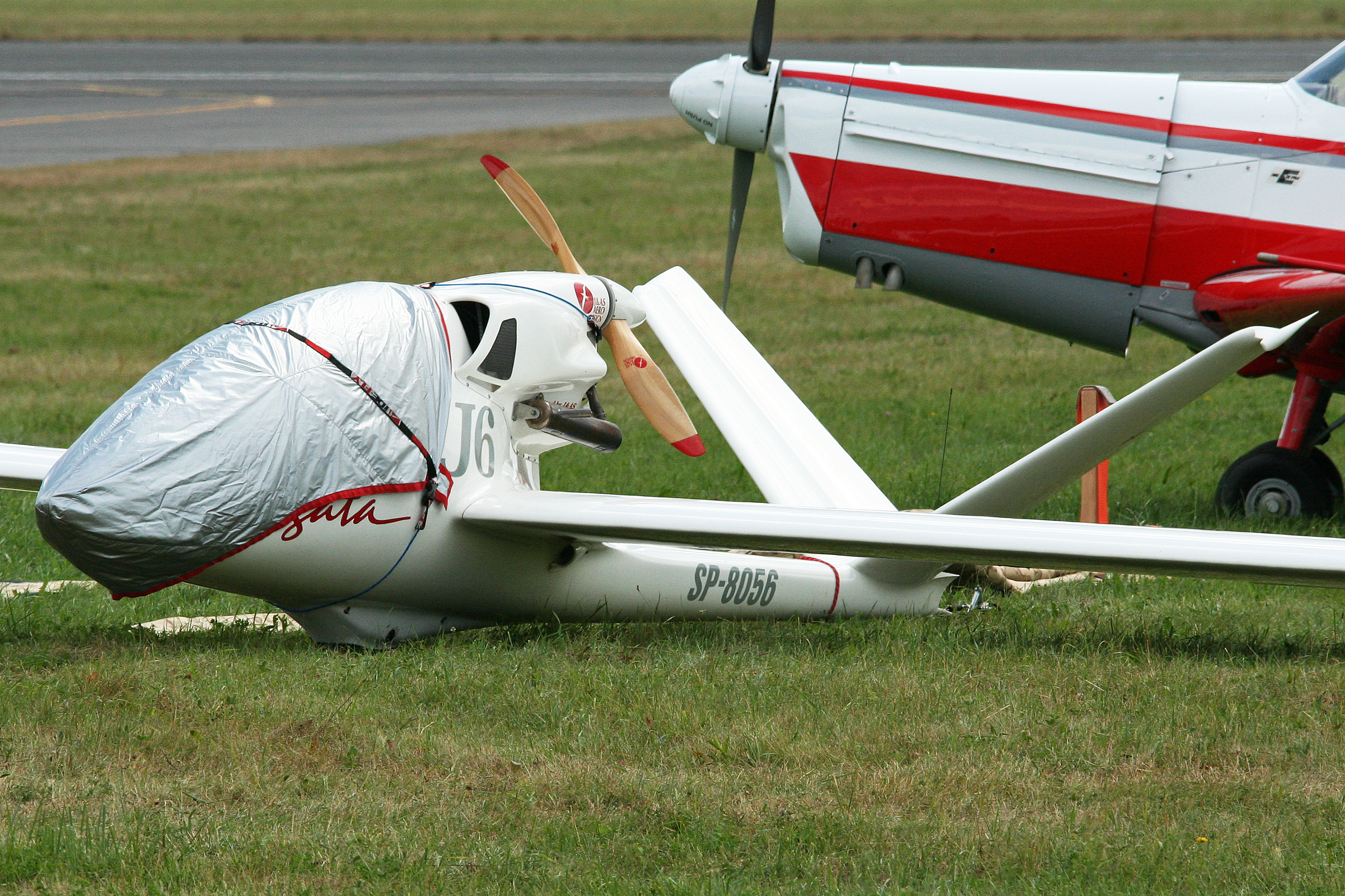 The J6 Fregata motorglider from Poland has emerged from a collaboration between Wojciech Jeriorski and designer and manufacturer Jaroslaw Janowski, who heads J & AS Aero Design Ltd. This interesting aircraft, which uses a redesigned Honda 52hp at 6000rpm motorboat engine, flies at 191km/h with a fuel consumption of six to eight litres per hour. This gives enough power for take-off and has a fuel capacity of 60 litres. Its wingspan is 12.55m with a maximum weight of 410kg. c/n 003. Parked on the grass flightline during the 2013 Airshow at Radom Airbase, Poland. 24-8-2013 Info from 'Gliding and Motorgliding International' magazine.